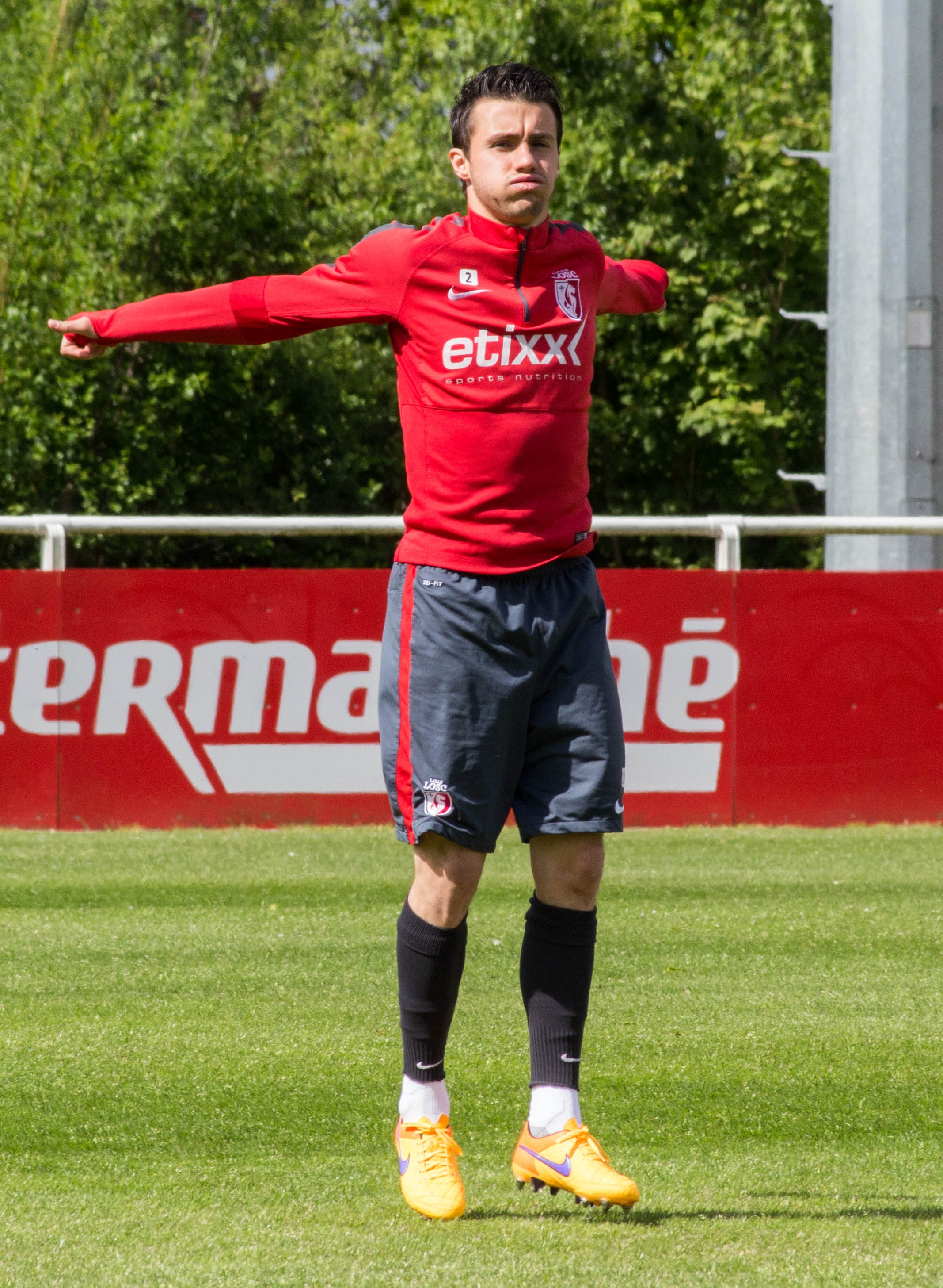 Sébastien Corchia in training with Lille OSC in 2015.